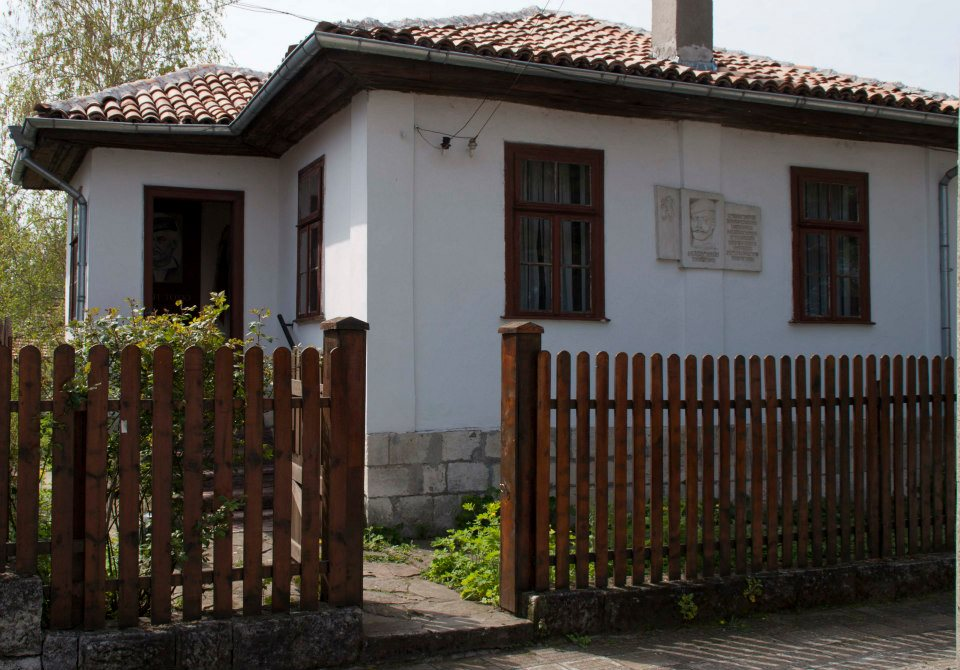 House-museum of Filip Totyu in Dve mogili, Bulgaria